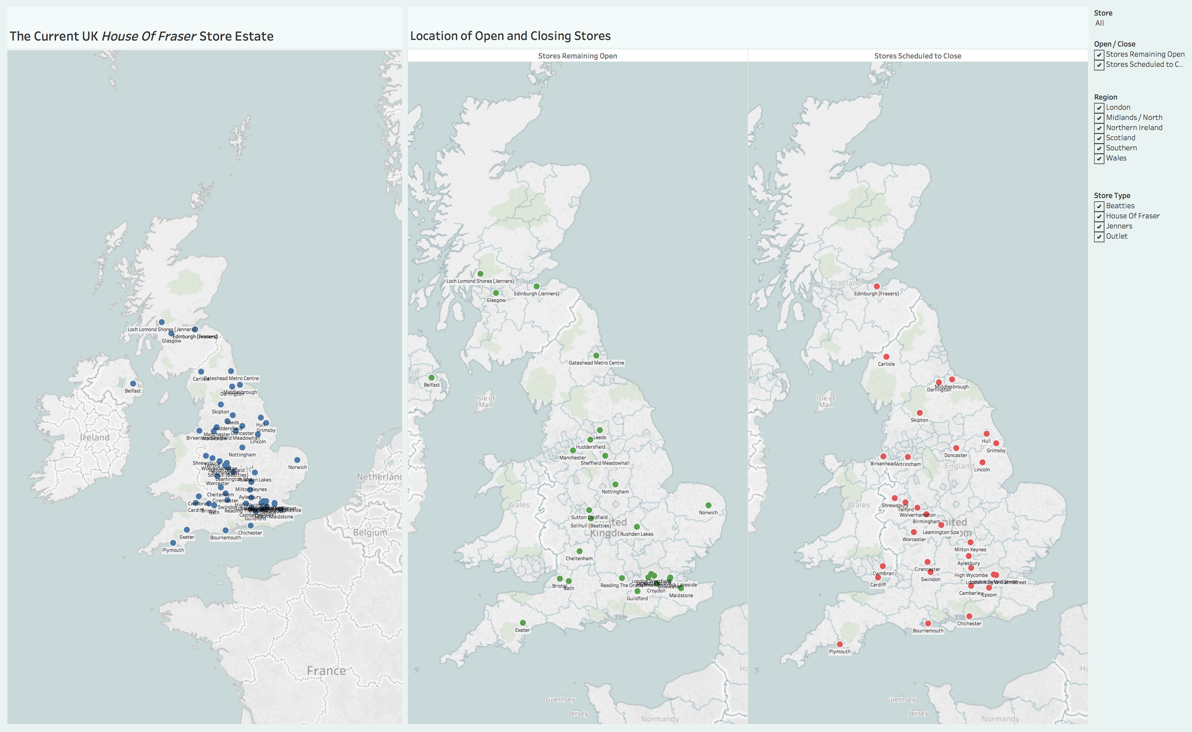 A visual showing the House of Fraser UK store estate, plus maps showing the location of the planned store closure programme. Created using Tableau Software